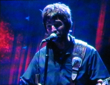 Noel Gallager performing at an Oasis concert at Shoreline Amphitheatre in Mountain View, California, September 11, 2005Oasis Concert.